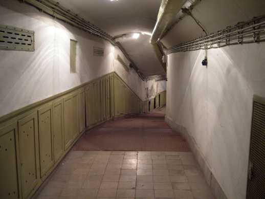 Hospital in the Rock, Corridor